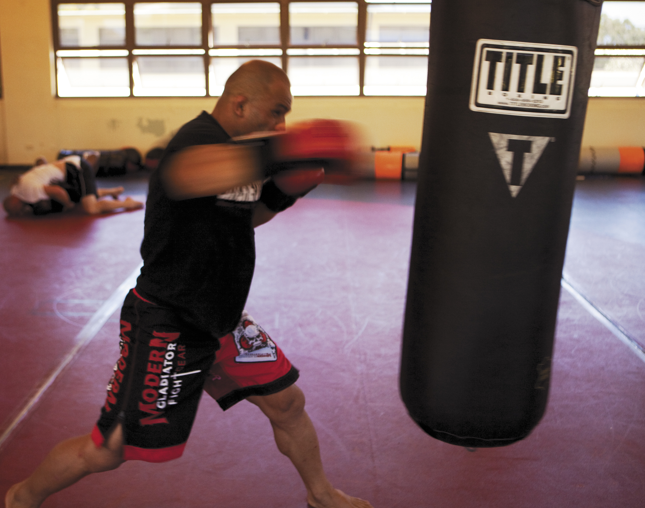 Undefeated World Extreme Cagefighting rising star Kamal Shalorus shows off his skills during a Relson Gracie Team Seminar at School of Infantry West —Detachment Hawaii on base May 9. Shalorus, nicknamed “The Prince of Persia,” is slated to battle former WEC Lightweight Champion Jamie Varner on June 20 at WEC 49.